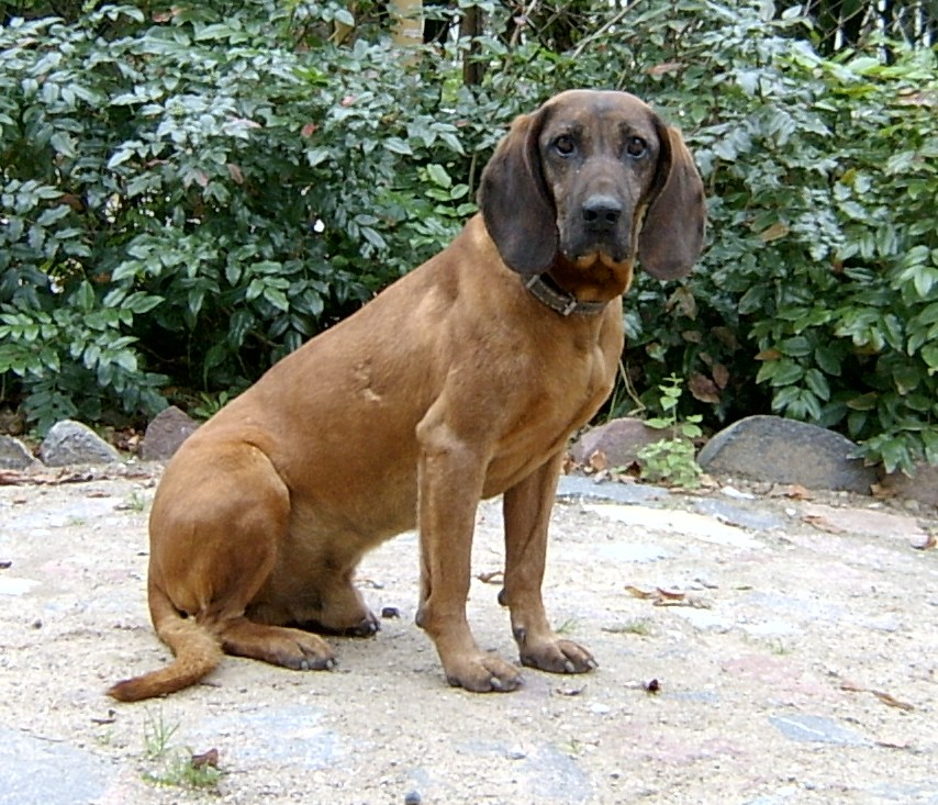 Bavarian Mountain Hound (name: Zoran Spod Ruskiej Granicy)